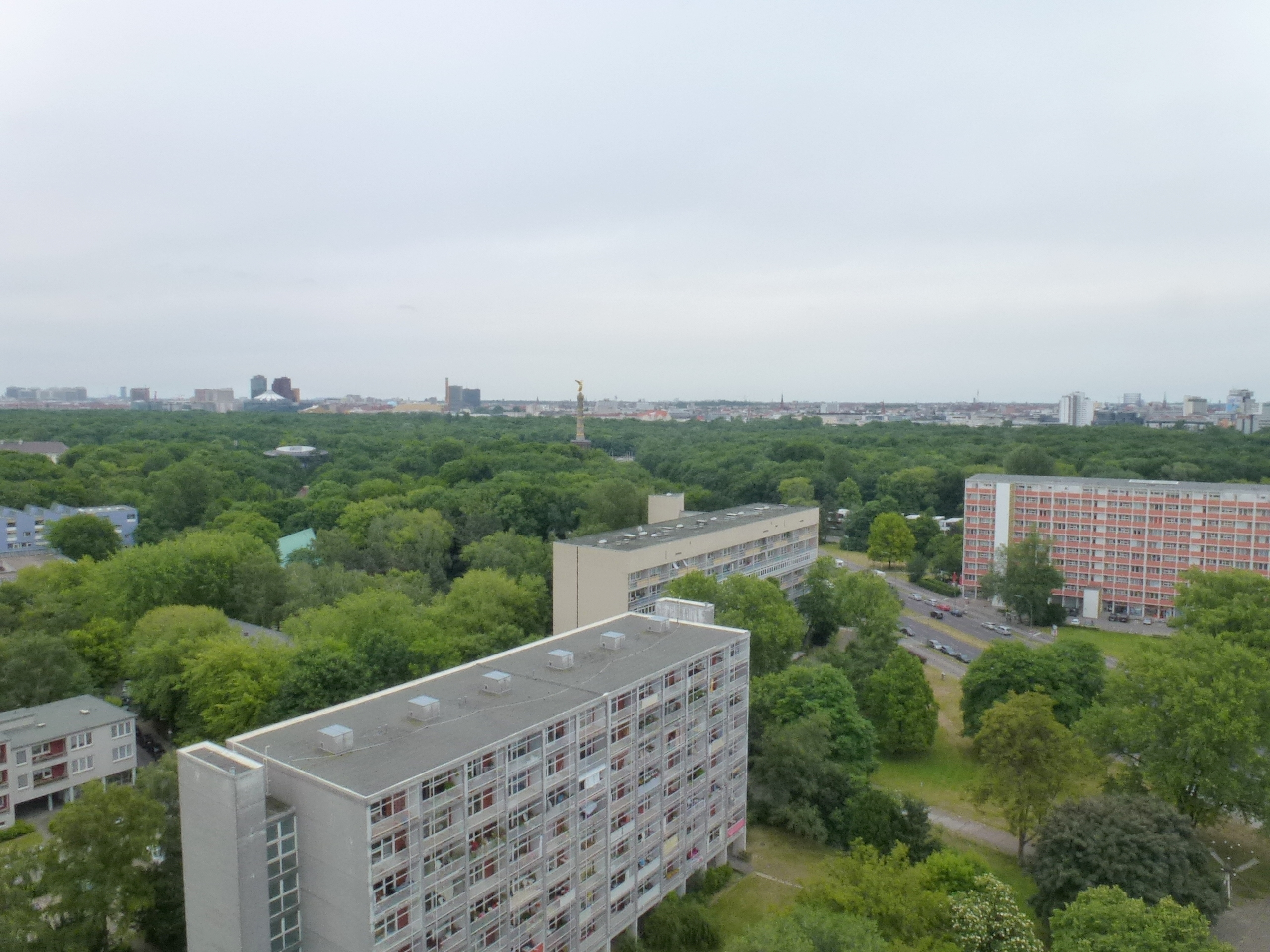 Berlin-Hansaviertel Altonaer Straße